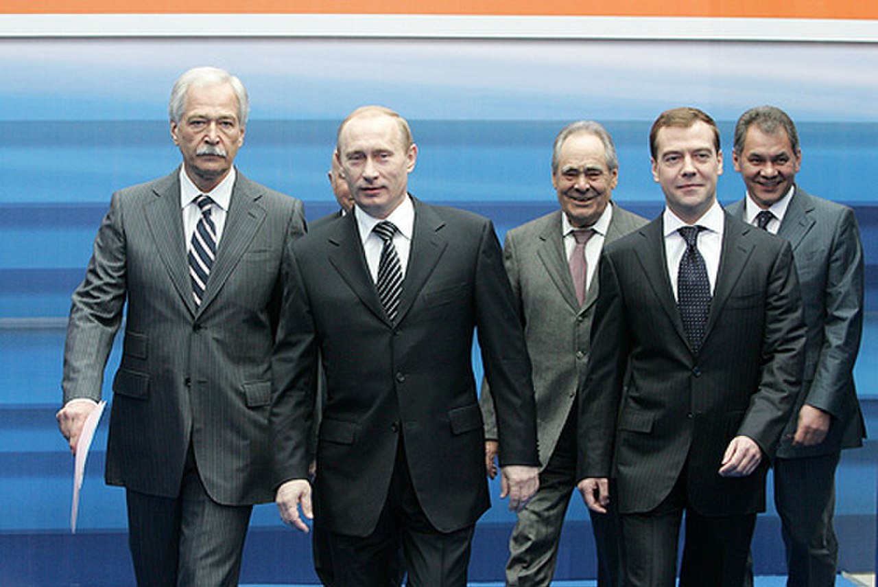 MOSCOW. Before the 9th United Russia Party Congress.